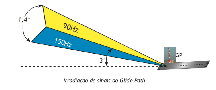 Irradiação de sinais do Glide Path